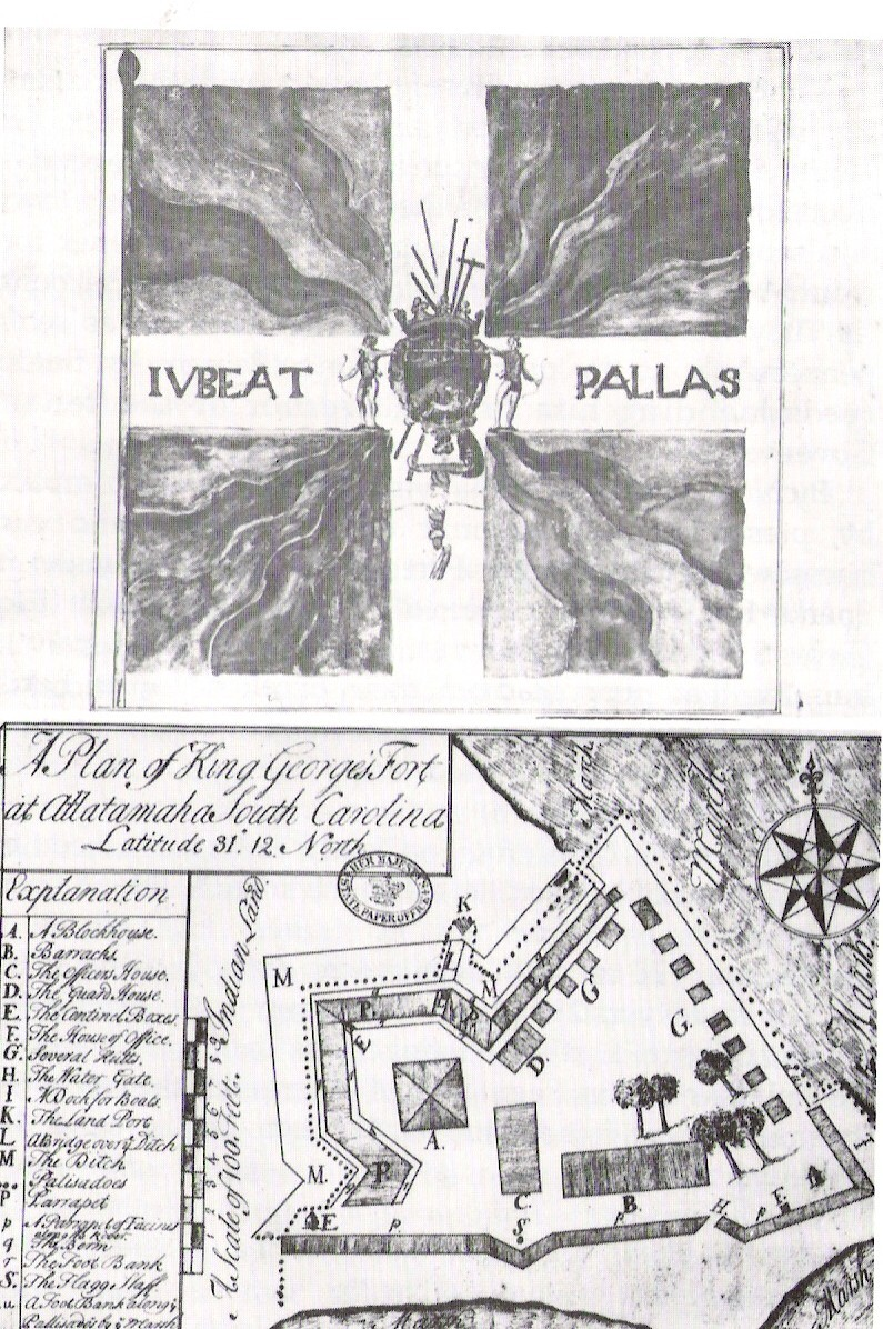 A Plan of Fort King George's Fort at Allatamaha, South Carolina Latitude 31 degrees 12" North, 1722. This file is public domain since it was created in 1722.